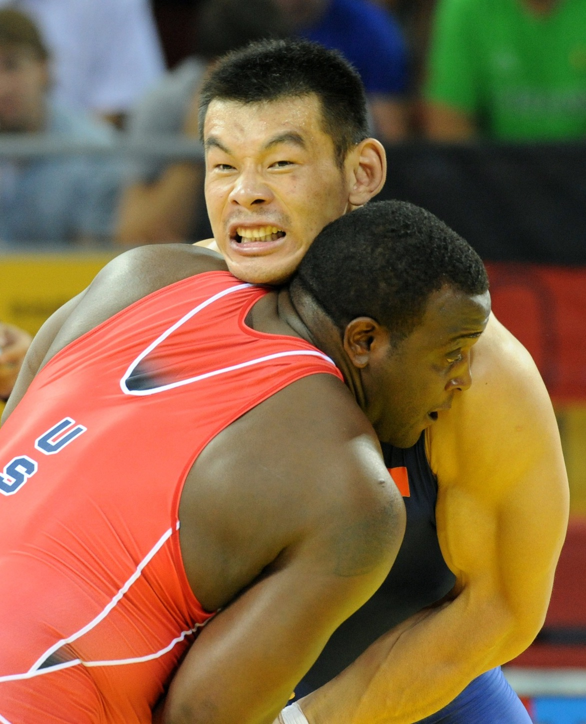 U.S. Army Staff Sgt. Dremiel Byers wrestles to victory over China's Deli Liu in the second round of the Olympic Greco-Roman 120-kilogram tournament during the 2008 Olympic Games in Beijing, China, Aug. 14, 2008. Byers is a member of the U.S. Army World Class Athlete Program.